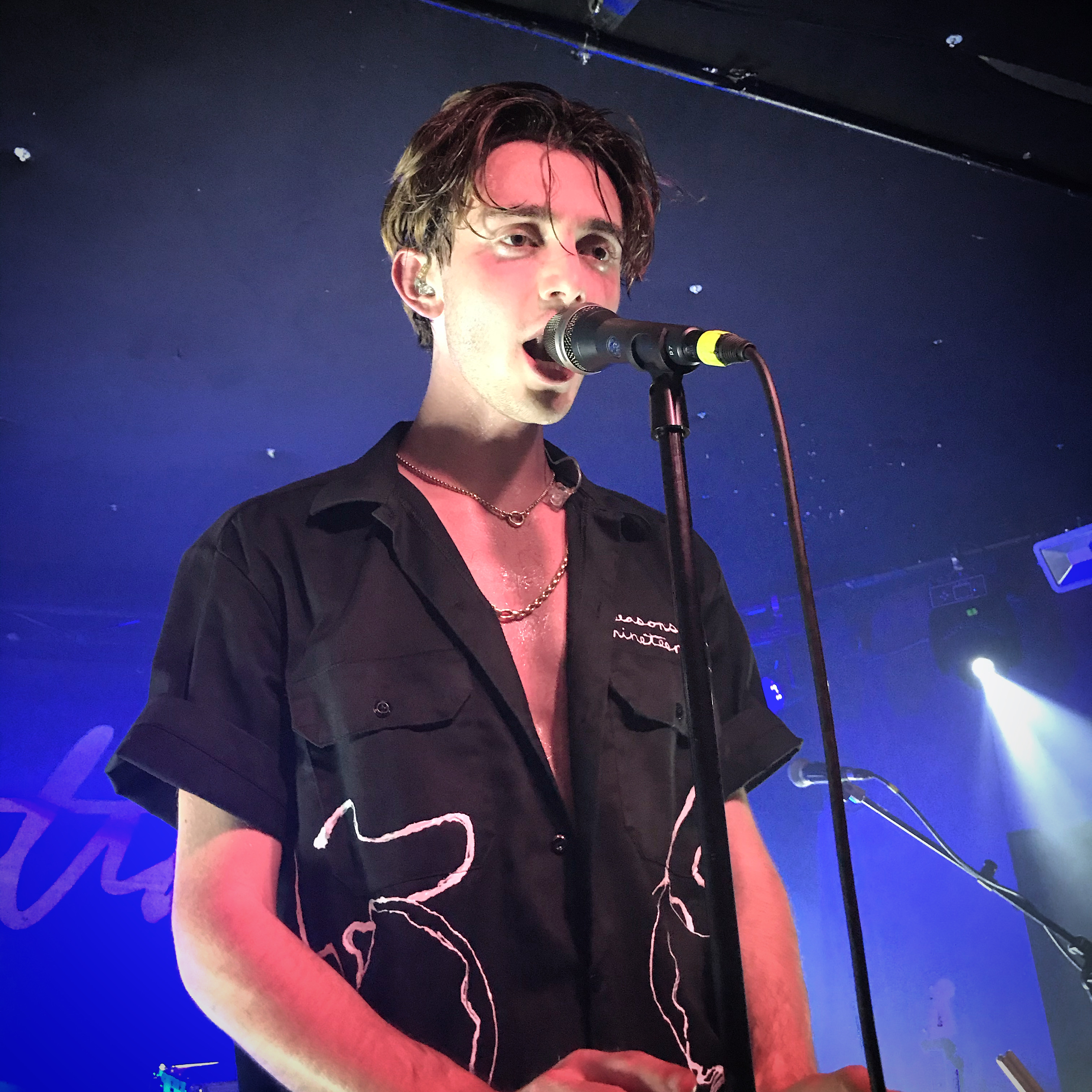 American singer Greyson Chance during his performance at Badehaus in Berlin on 10th October, 2019